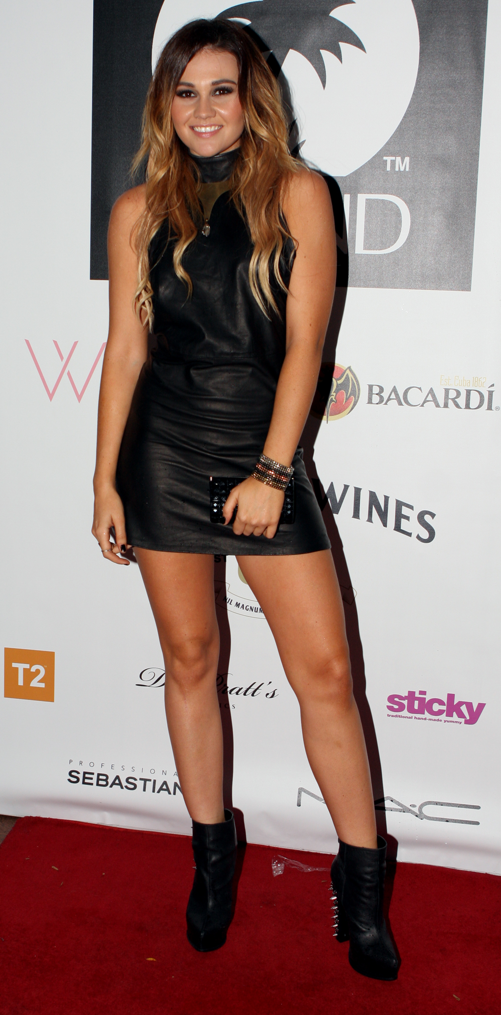 Universal Records and Island Records performing artists at Blue Beat club, Double Bay, Sydney